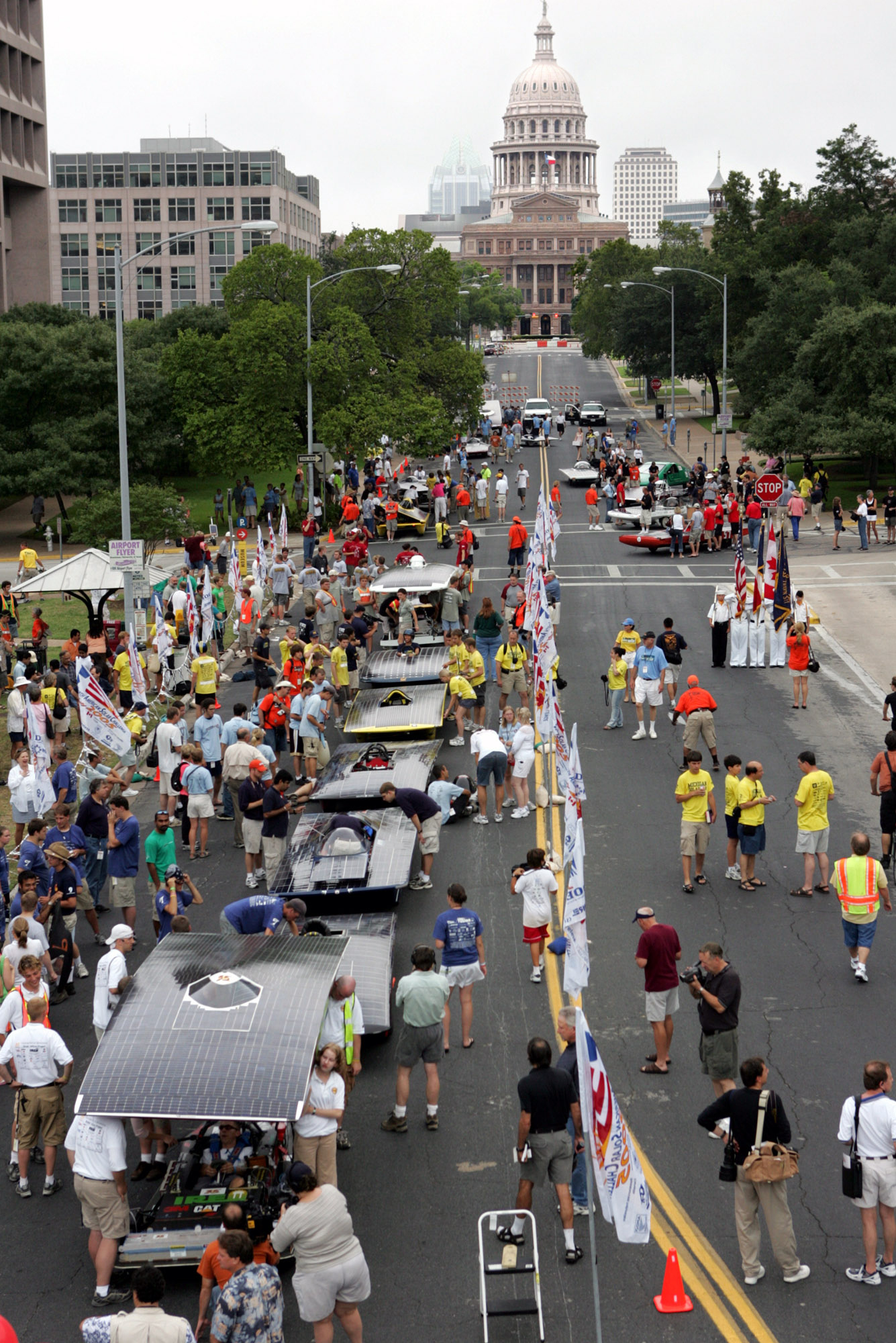 Solar race vehicles and crews at the start of the 2005 race. Author: Stefano Paltera / North American Solar Challenge Permission to use is at Specific photo page where photo was found